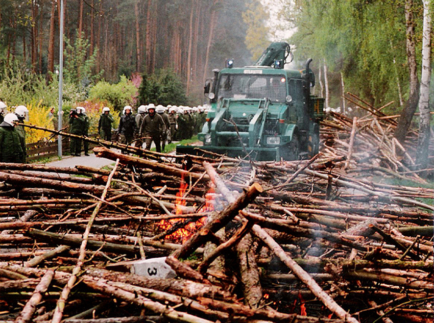 Gorleben, Police running blockades at demonstrations against CASTOR atomic waste transport